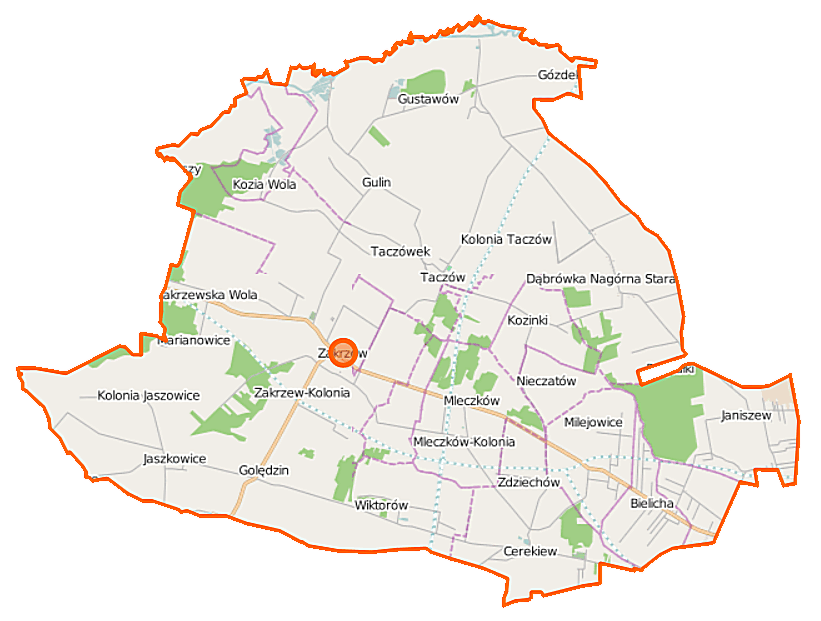 Map of Gmina Zakrzew, Poland This map of Zakrzew (gmina w województwie mazowieckim) was created from OpenStreetMap project data, collected by the community. This map may be incomplete, and may contain errors. Don't rely solely on it for navigation. Border coordinates51.500820.9090←↕→21.134951.3945